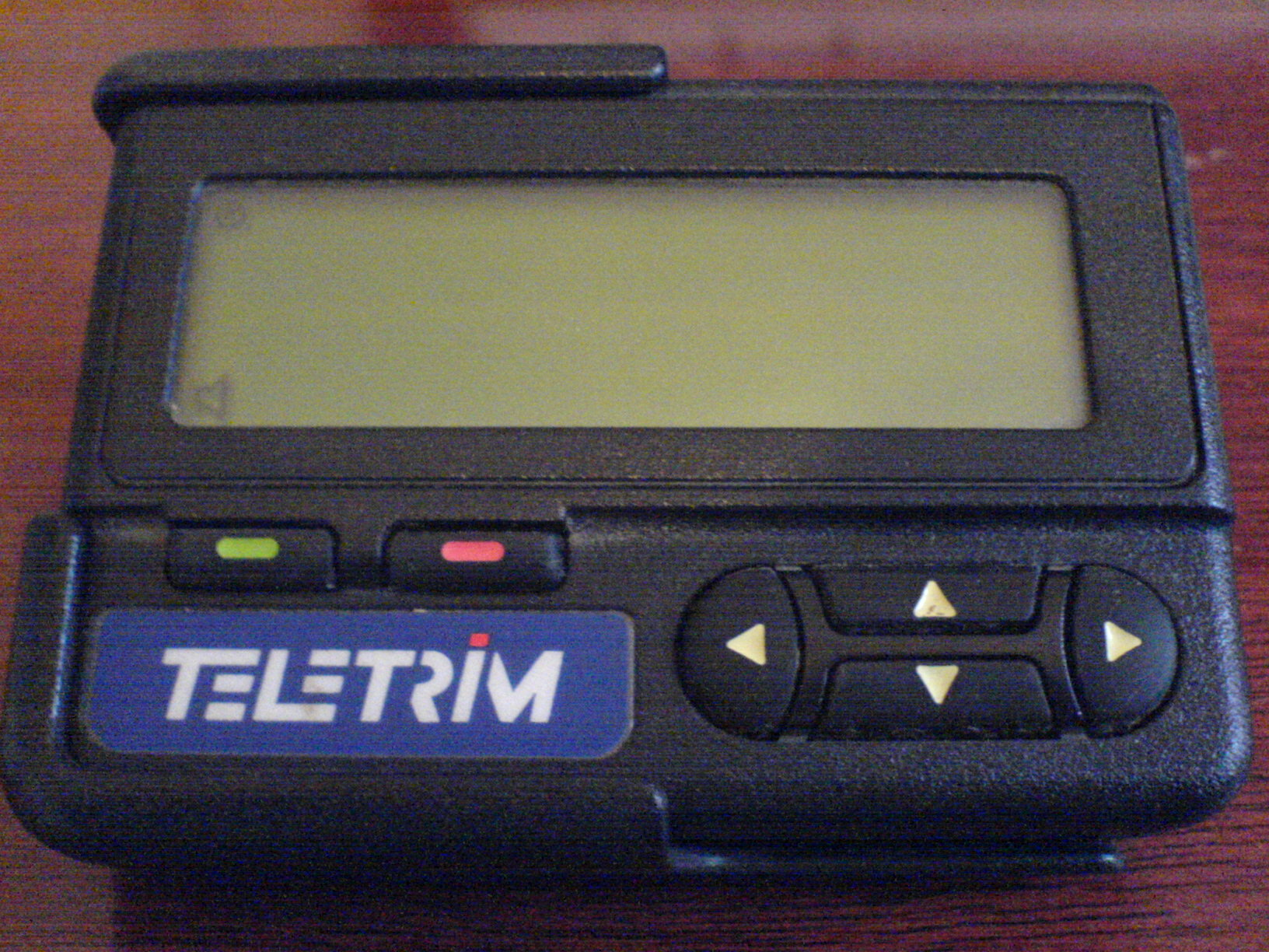 A Motorola Pager used in Brazil in the 90's, service operated by Teletrim.